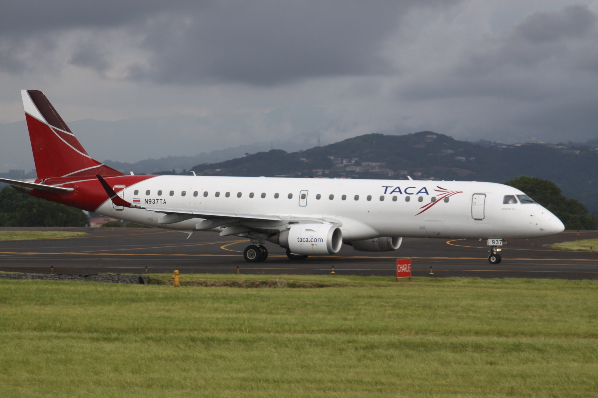 At Juan Santamaría International